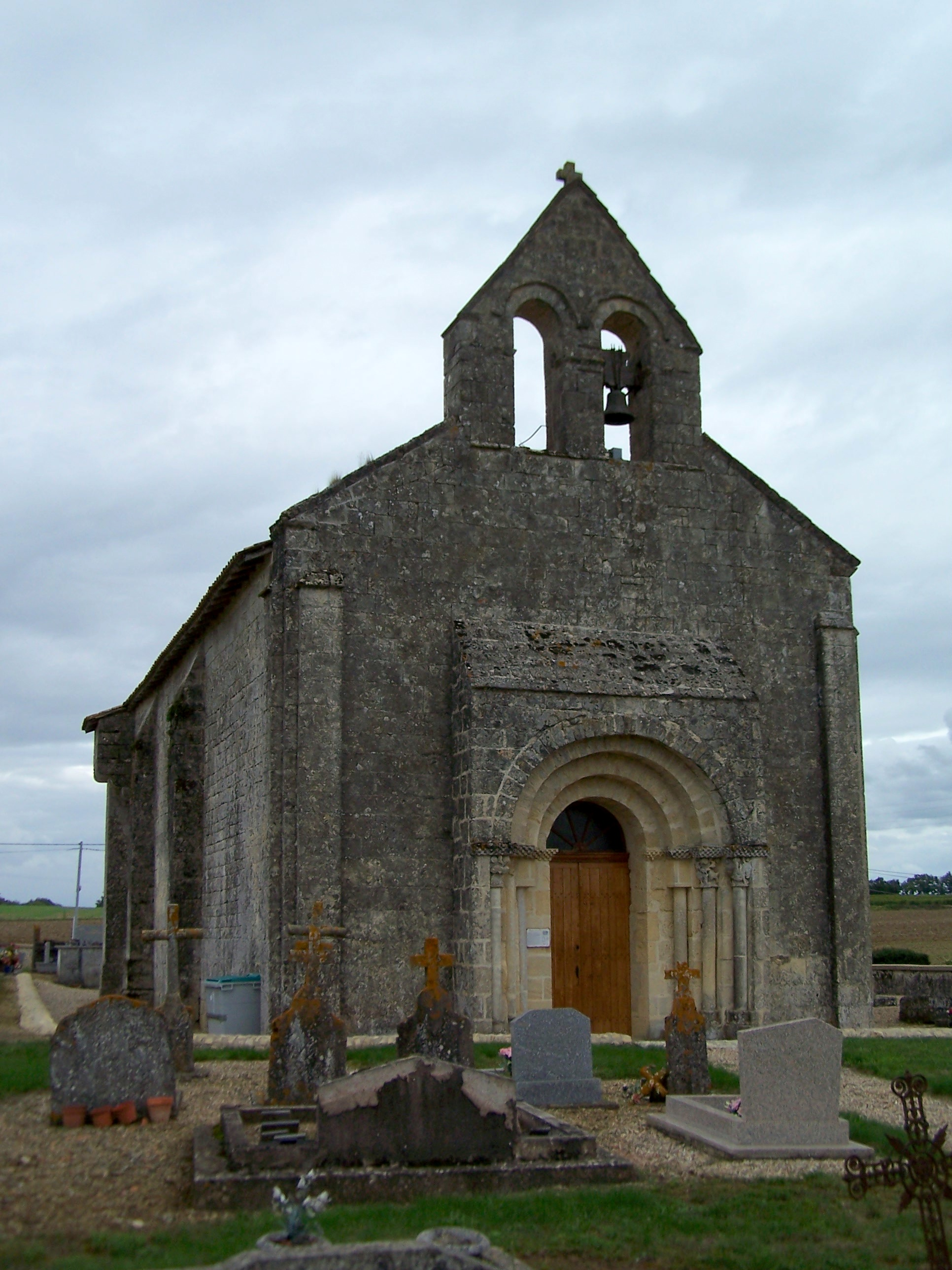 Saint Peter church of Martres (Gironde, France)